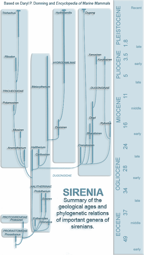 Based on Daryl P. Domning, Encyclopedia of Marine Mammals, Perrin, Würsig, Thewissen Created by Sharon Mooney [1] for Wikipedia. Image may be re-distributed on condition all original credits are kept intact.